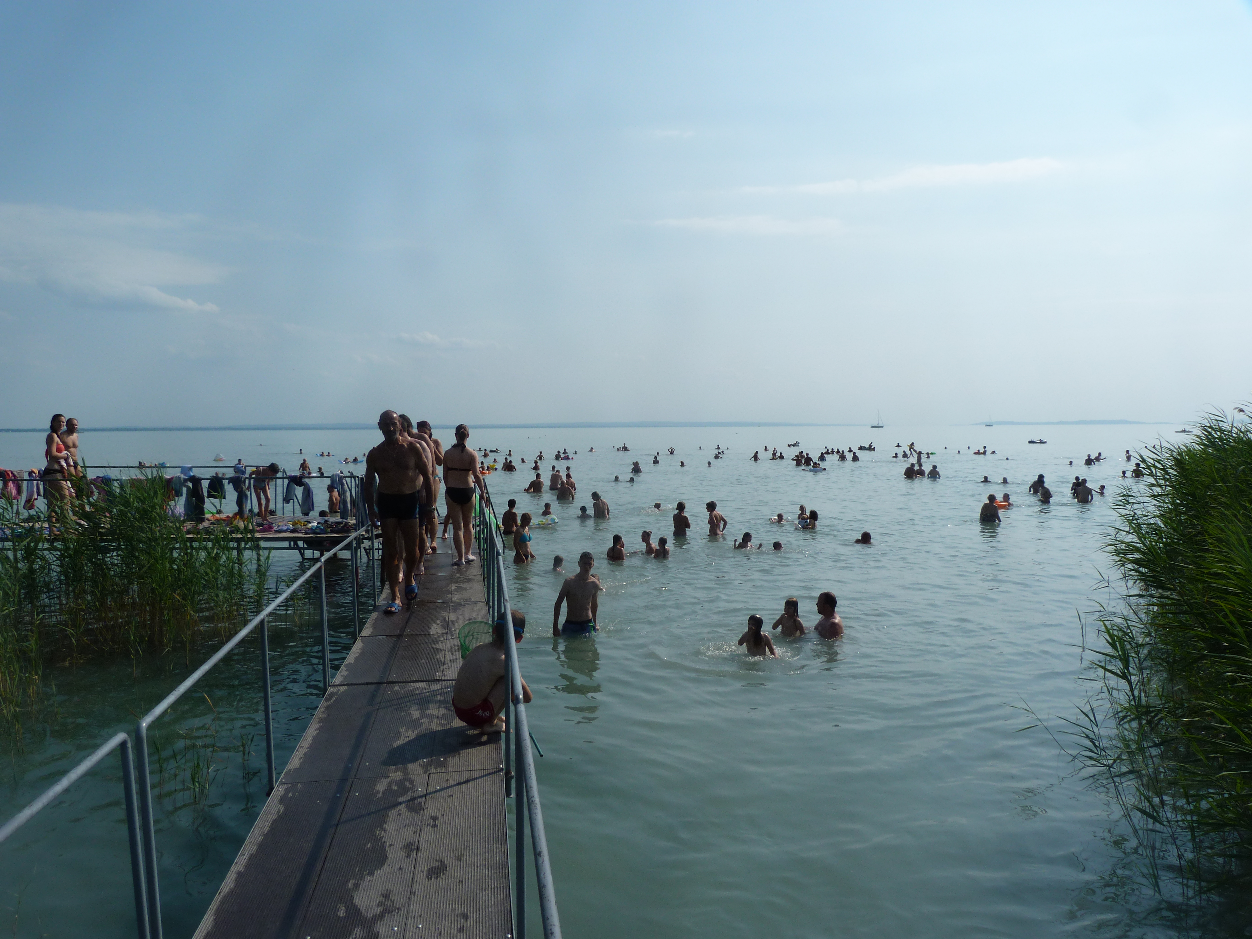 Wild Swimming Balaton: Balatonakarattya: Gumirádli szabadstrand Balatonberény: Csicsergő sétányi szabadstrand Balatonboglár: Platán strand és más szabadstrandok Balatonfenyves: Nagyszabadstrand, Csalogány közi szabadstrand, Balatonfenyves - alsói szabadstrand, István Király utcai szabadstrand, Balatonföldvár: Keleti szabadstrand, Központi szabadstrand, Nyugati szabadstrand Balatonkenese: Alsóréti szabadstrand Balatonmáriafürdő: Központi strand Balatonőszöd: Községi szabadstrand Balatonszárszó: Központi szabadstrand Balatonszemes: Berzsenyi utcai szabadstrand és élményfürdő Balatonudvari: Fövenyesi szabadstrand, Községi strand Balatonvilágos: Községi fizetős és Szabadstrand Fonyód: Sándortelepi, Árpád-parti szabadstrand, bélatelepi szabadstrand, Tungsram - Városi – szabadstrand Keszthely: Déli szabad strand Örvényes: Vadkacsa szabadstrand Siófok: Aranyparti szabadstrand, Szabadstrand a pesti vonathoz – Aranypart, Balatonszabadi szabadstrand, Újhelyi, Ezüstparti szabadstrandok Szántód: Rigó utcai szabadstrand, Beach Party szabadstrand Tihany: Gödrösi szabadstrand, Somosi szabadstrand Zamárdi: Bácskai utcai szabadstrand, Gyöngyvirág és Pipacs utcai szabadstrand, Jegenye téri szabadstrand, Keszeg utcai szabadstrand, Kiss Ernő utcai szabadstrand, Klapka utcai szabadstrand, T-Beach szabadstrand Zánka: Gyermek és Ifjúsági Centrum szabadstrand ©© Derzsi Elekes Andor, Budapest, 2015, Published in the Metapolisz DVD line. You are authorised to use this photo under Creative Commons – even for commercial, for profit purposes. The photo must be attributed to Derzsi Elekes Andor. All of the photos and vids in the Metapolisz DVD line are under Creative Commons and can be used even for commercial – for profit – purposes. Recommended Citation Derzsi Elekes Andor: Metapolisz DVD line